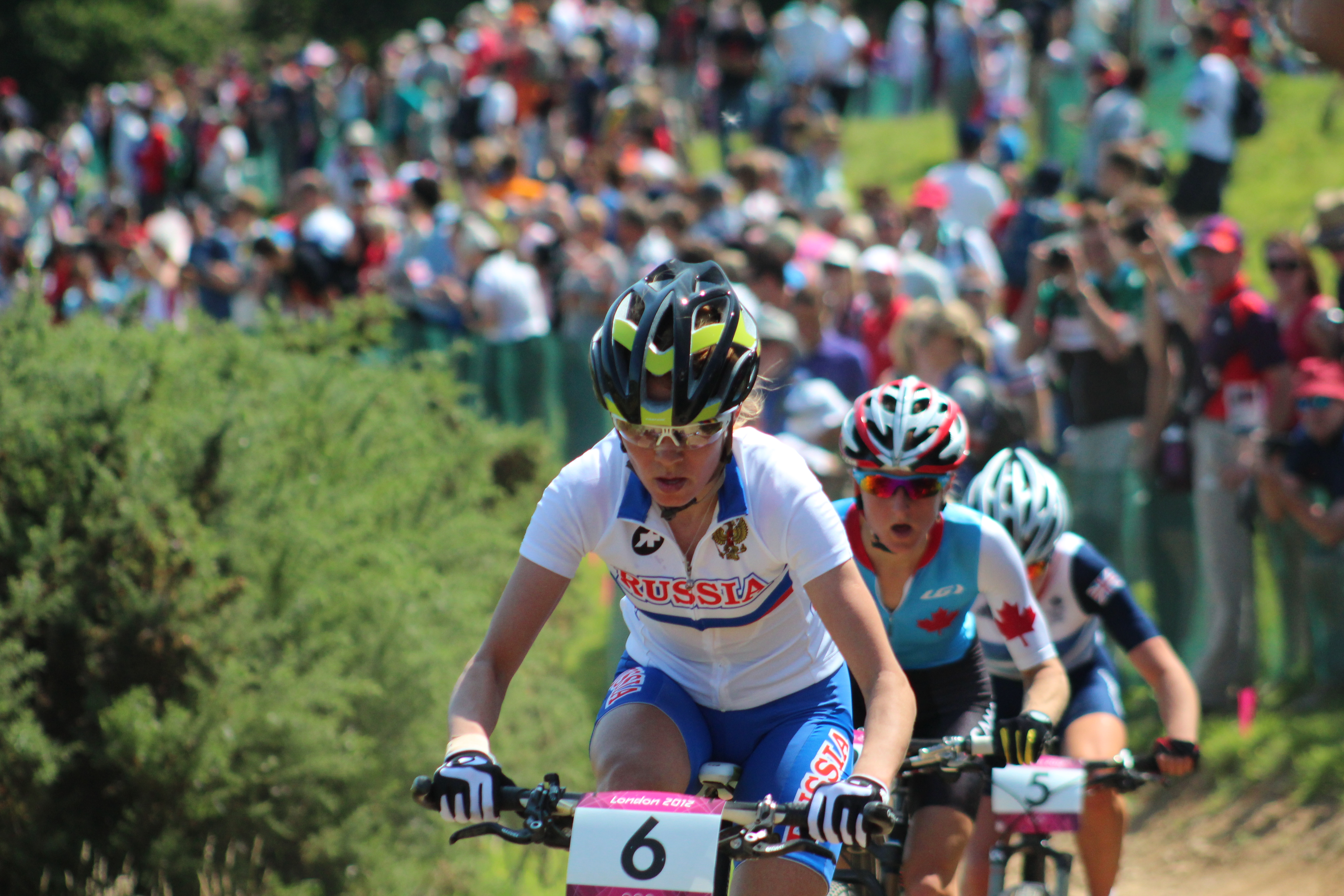 Olympic Mountain Biking - 11/12 August 2012. Hadleigh Farm.